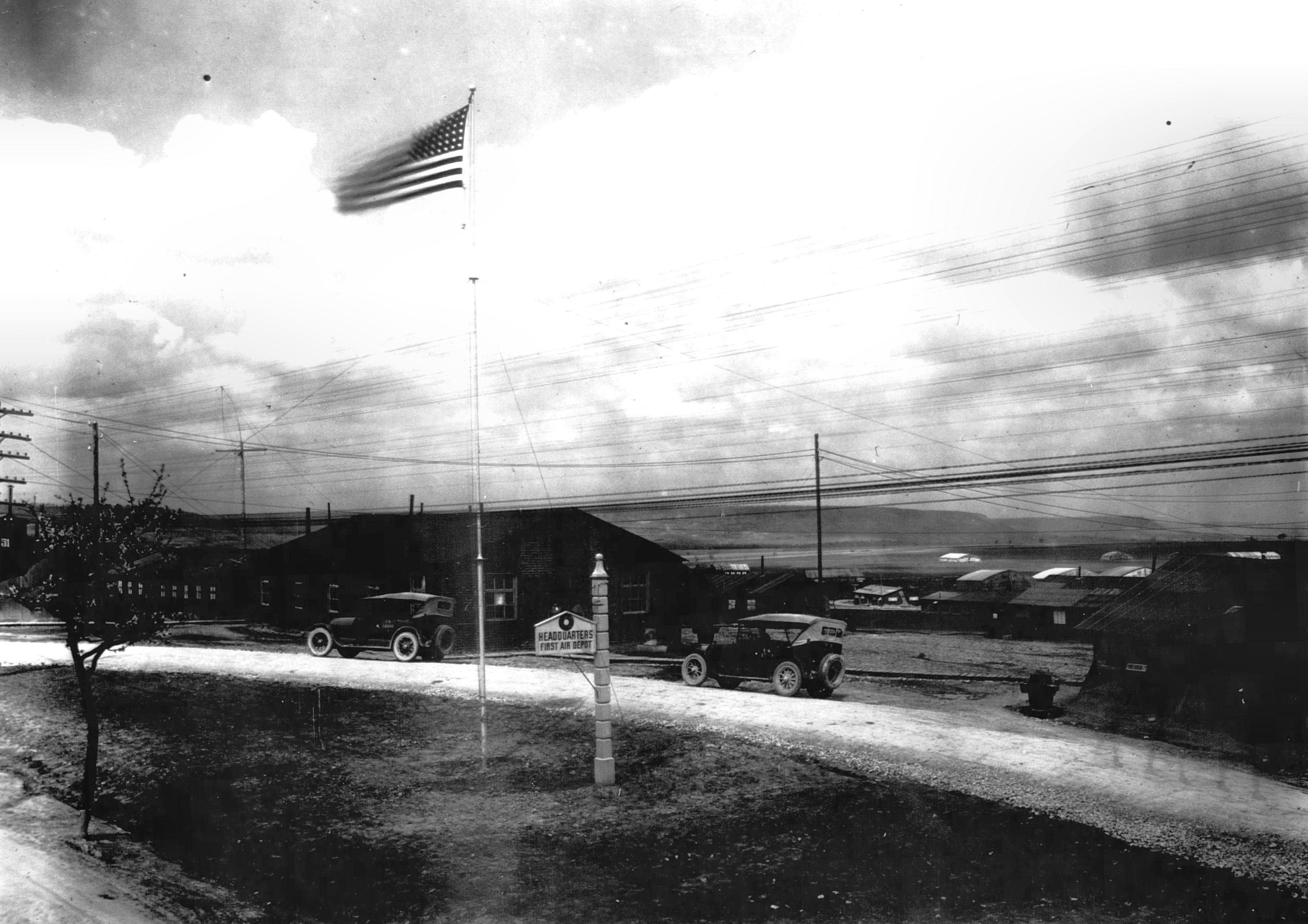 Colombey-les-Belles Aerodrome - 1st Air Depot HQ Source: Series 1, Paris Headquarters and Supply Section, Volume 30 History of the 1st Air Depot at Colombey-led-Belles, Gorrell's History of the American Expeditionary Forces Air Service, 1917–1919, National Archives, Washington, D.C.